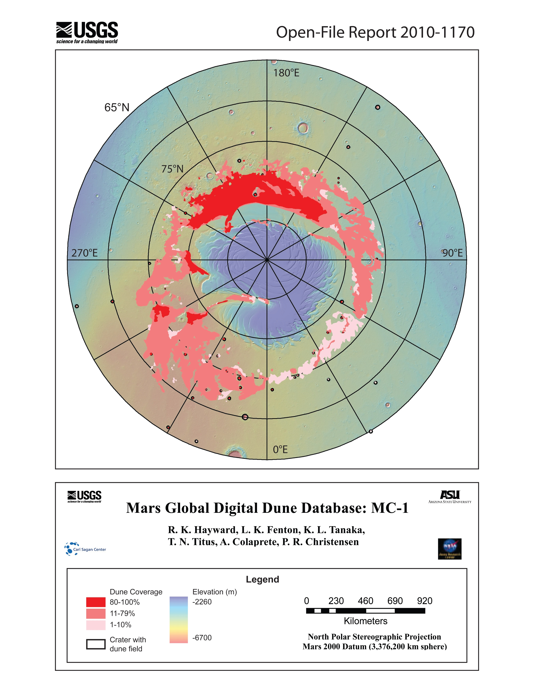 Mars Global Digital Dune Database; MC-1: U.S. Geological Survey Open-File Report 2010-1170. The Mars Global Digital Dune Database presents data and describes the methodology used in creating the global database of moderate- to large-size dune fields on Mars. The database is being released in a series of U.S. Geological Survey (USGS) Open-File Reports. The MC-1 release encompasses ~ 845,000 km2 of mapped dune fields from 65° N to 90° N latitude.